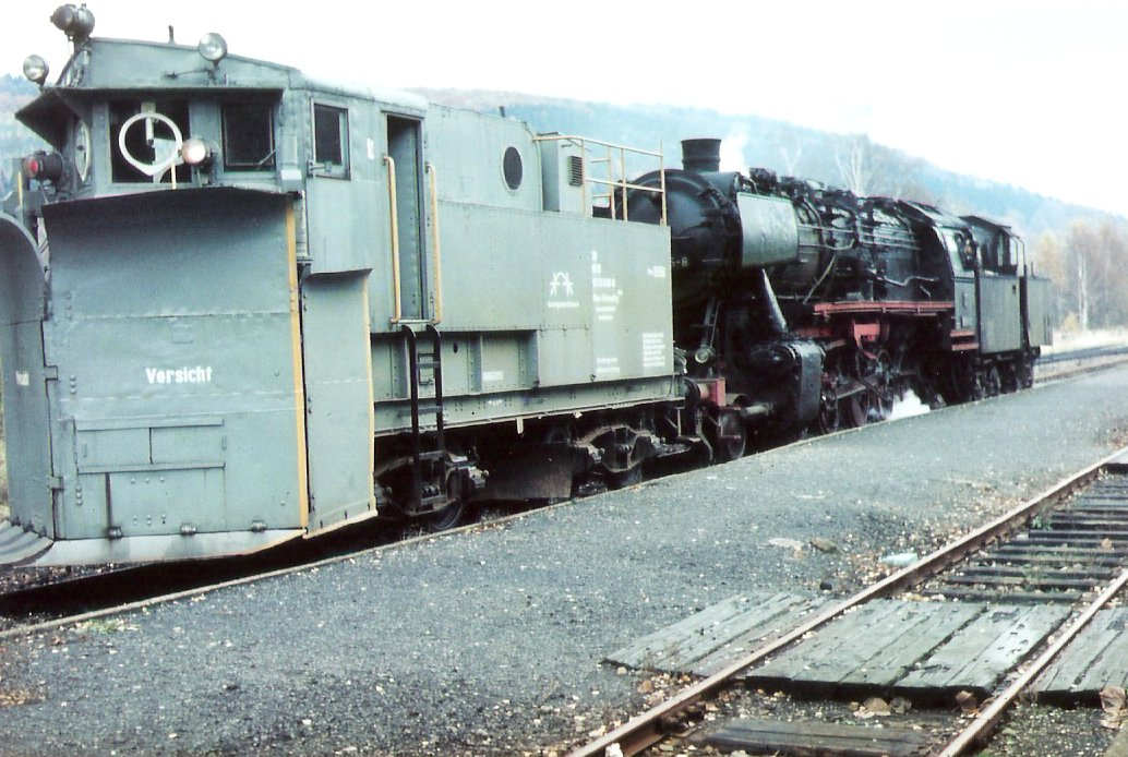 In order to keep the Eichenberg-Großalmerode Ost railway line clear of snow, a snow plough, pushed by a steam locomotive, was kept ready at that time.